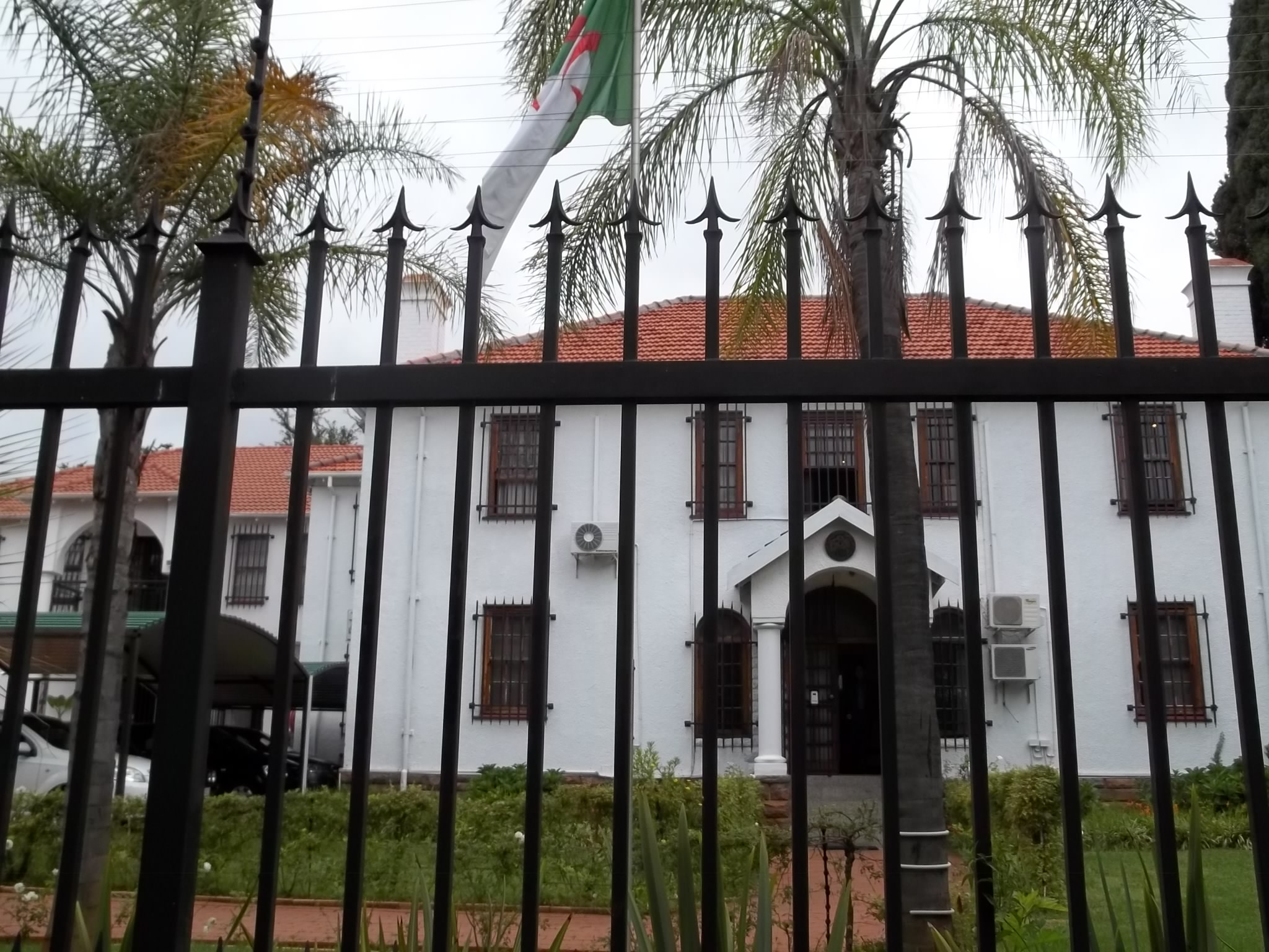 AL in ZA